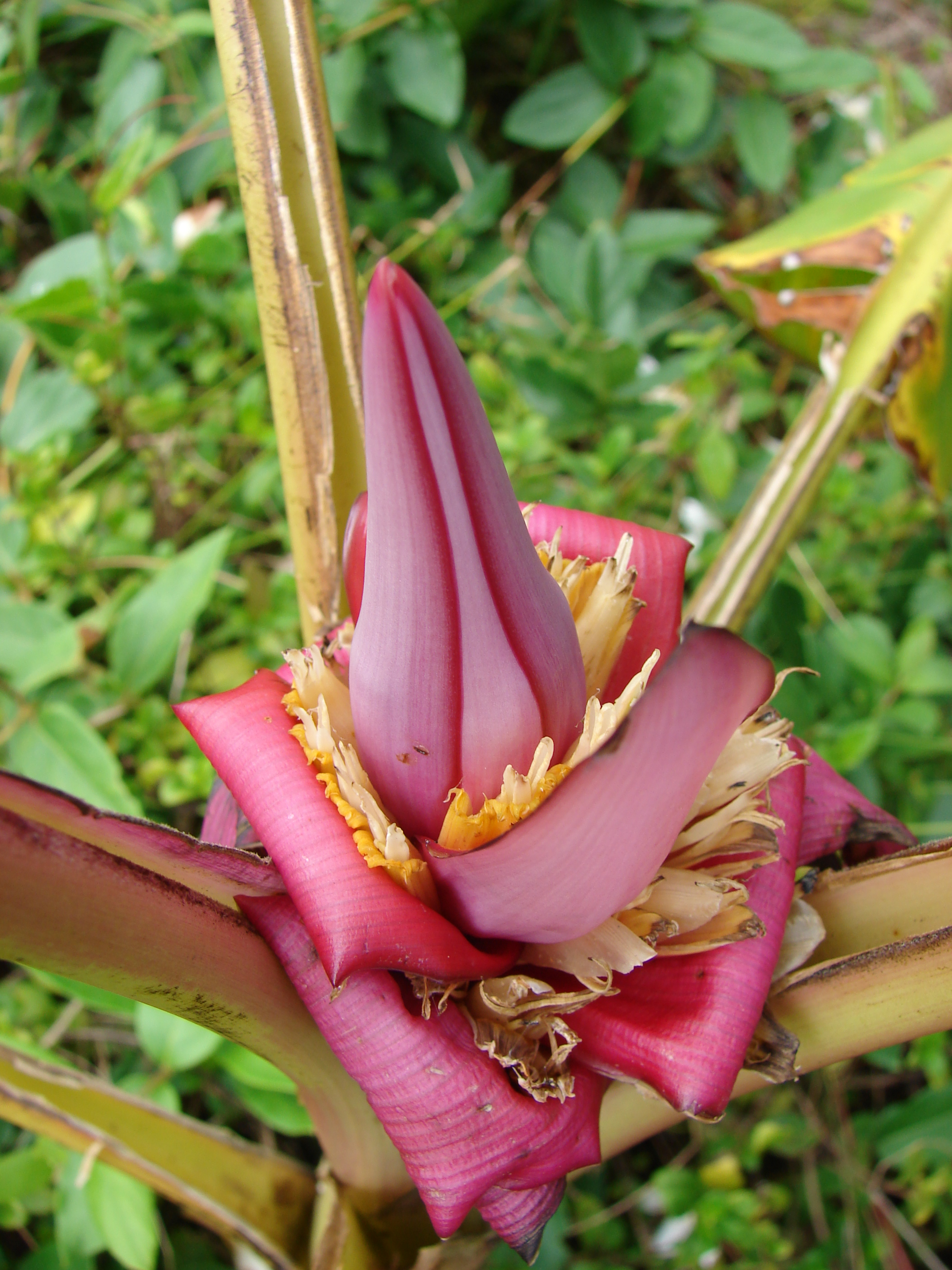 Musa velutina (flowers). Location: Maui, Enchanting Gardens of Kula